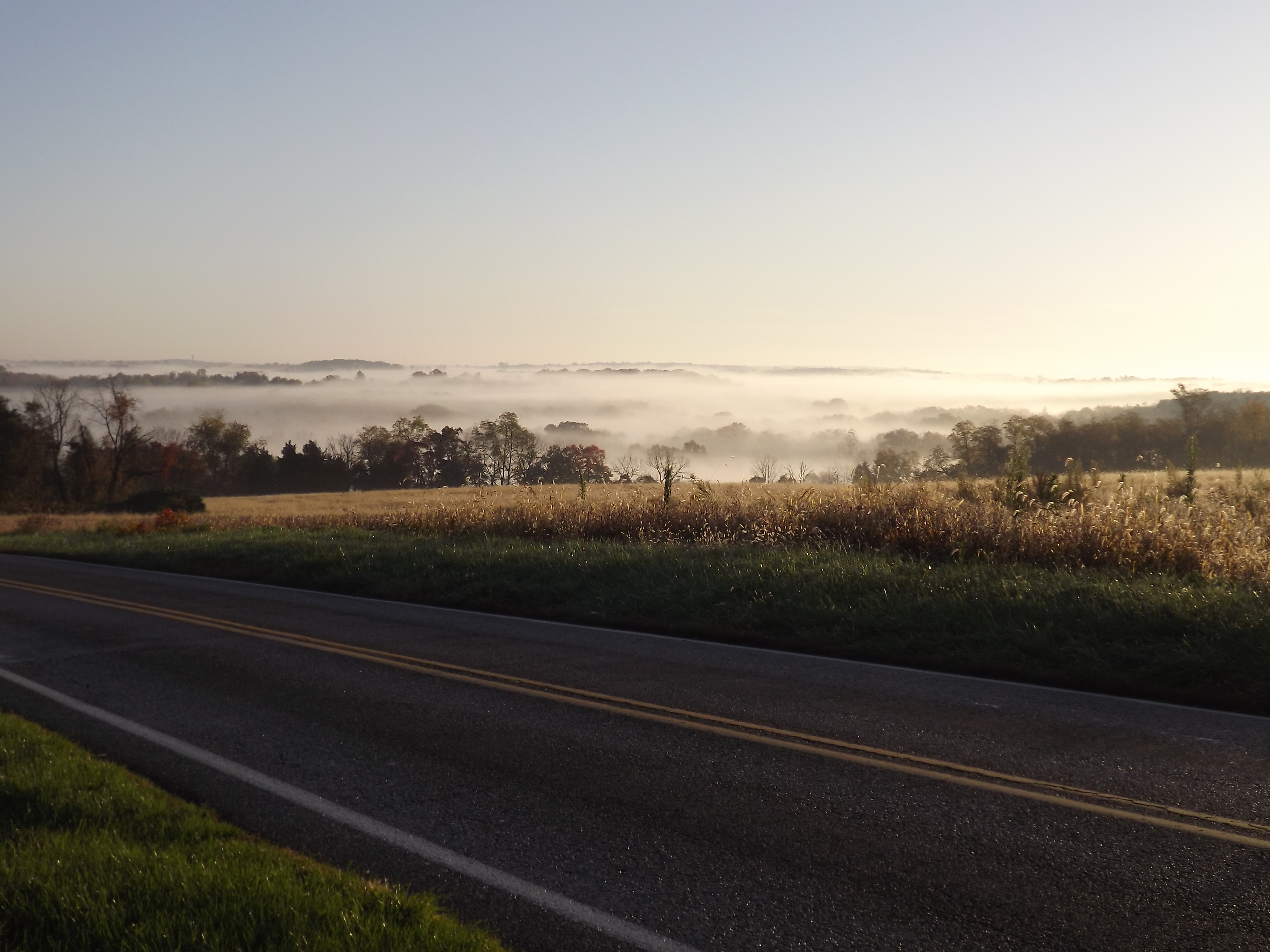 morning sunrise with fog